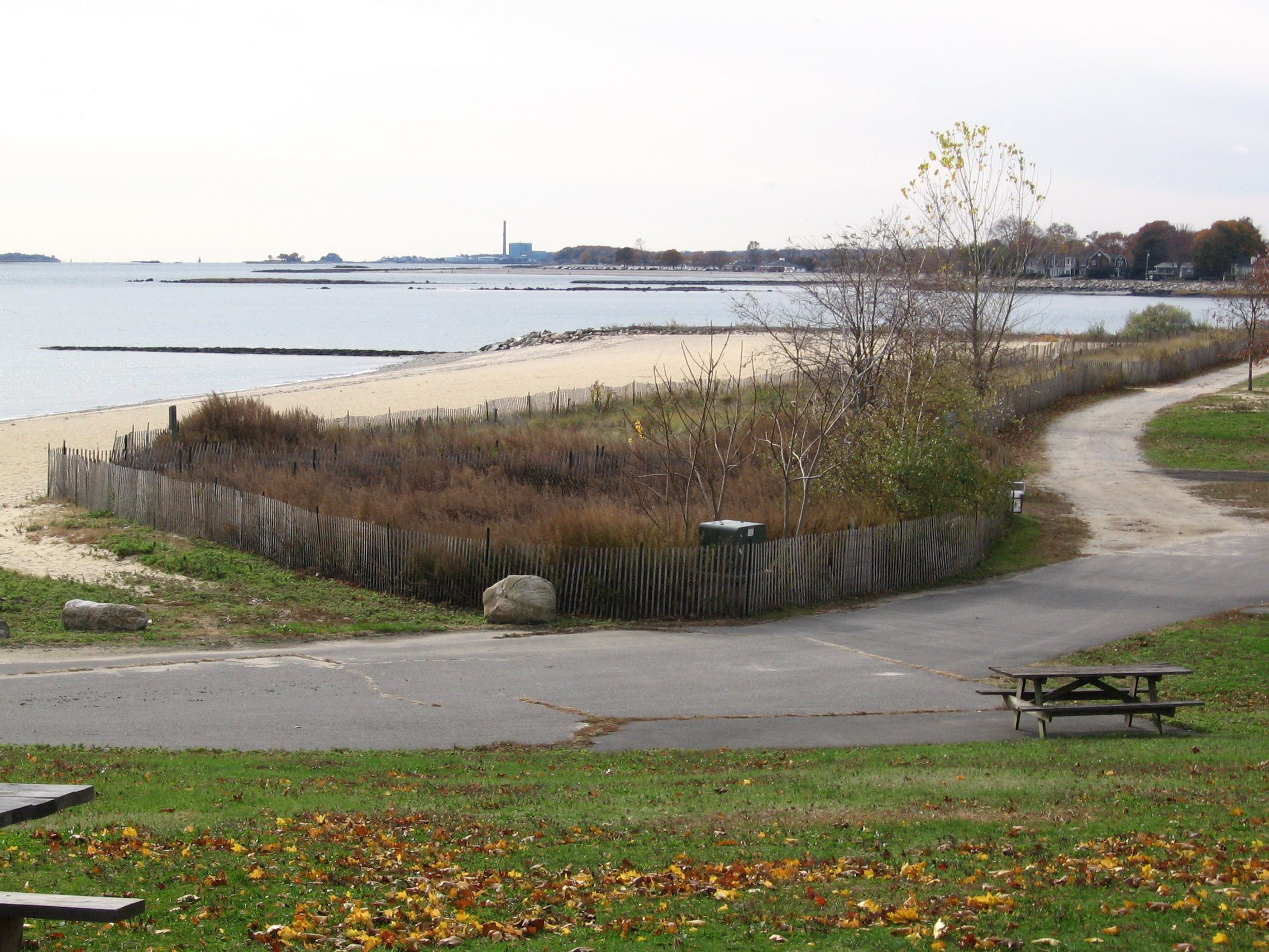 One of the beaches on the west side of Sherwood Island State Park in Westport, Connecticut. Behind it is a "Protected Sand Dune Area" financed with "Protect the Sound" Connecticut license plate sales along with donations from the Friends of Sherwood Island State Park organization, according to a sign at the park. In the distance, the Manresa Island power plant on the west side of Norwalk Harbor can be seen.